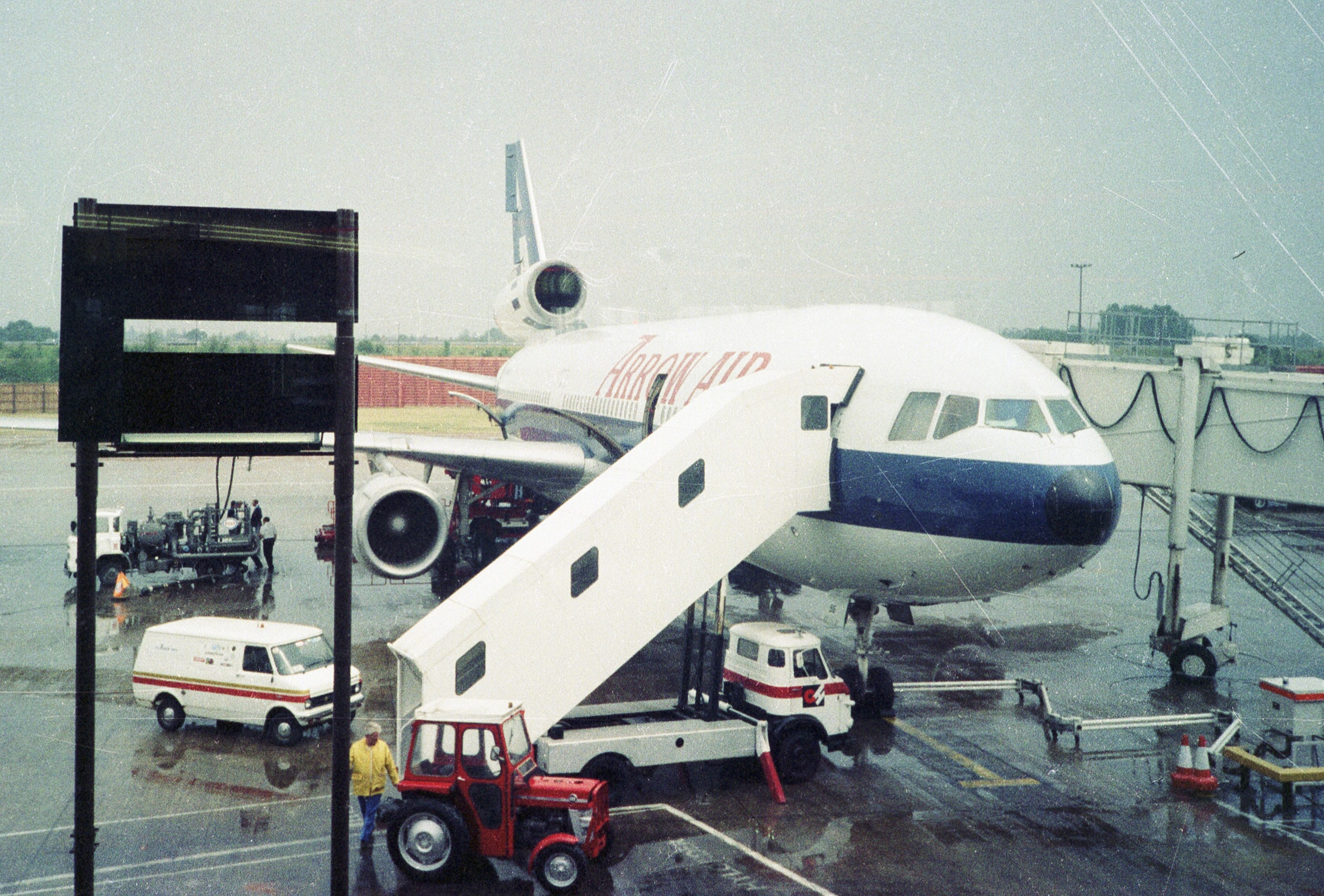 McDonnell Douglas DC-10-10 N916JW (cn 46906/50) Arrow Air (ex-Laker G-AZZD. Last noted with Hawaiian Air as N171AA in 1999). London - Gatwick (LGW / EGKK) UK - England, July 9 1984.